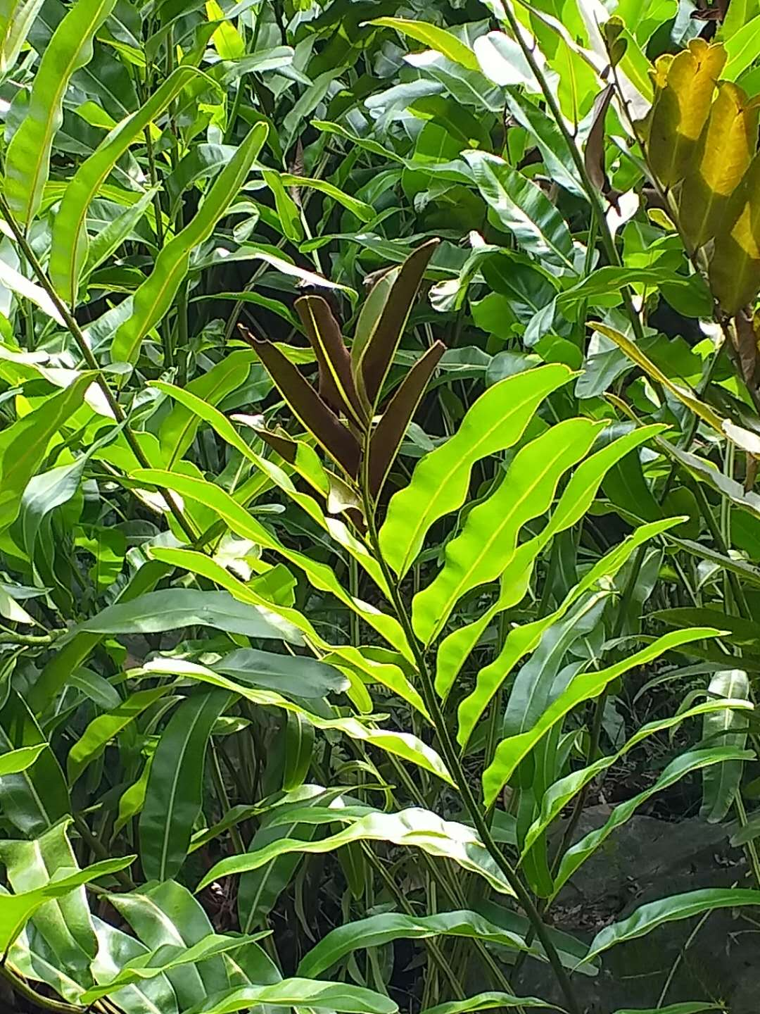 Sporophylls of Acrostichum aureum. Taichung Botanical Garden, Taiwan.